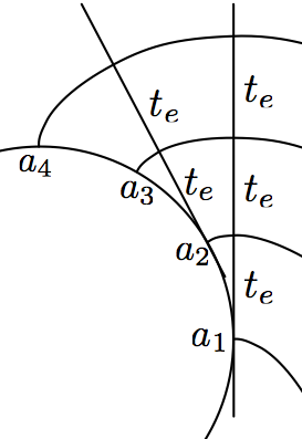 base circle pitch and normal pitch of involute gear